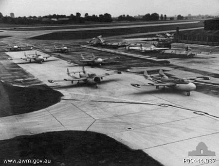 Australian War Memorial (AWM) catalog number P00444.037. Royal Navy Sea Venom aircraft being handed over to the Royal Australian Navy. These aircraft were later operated from HMAS Melbourne.